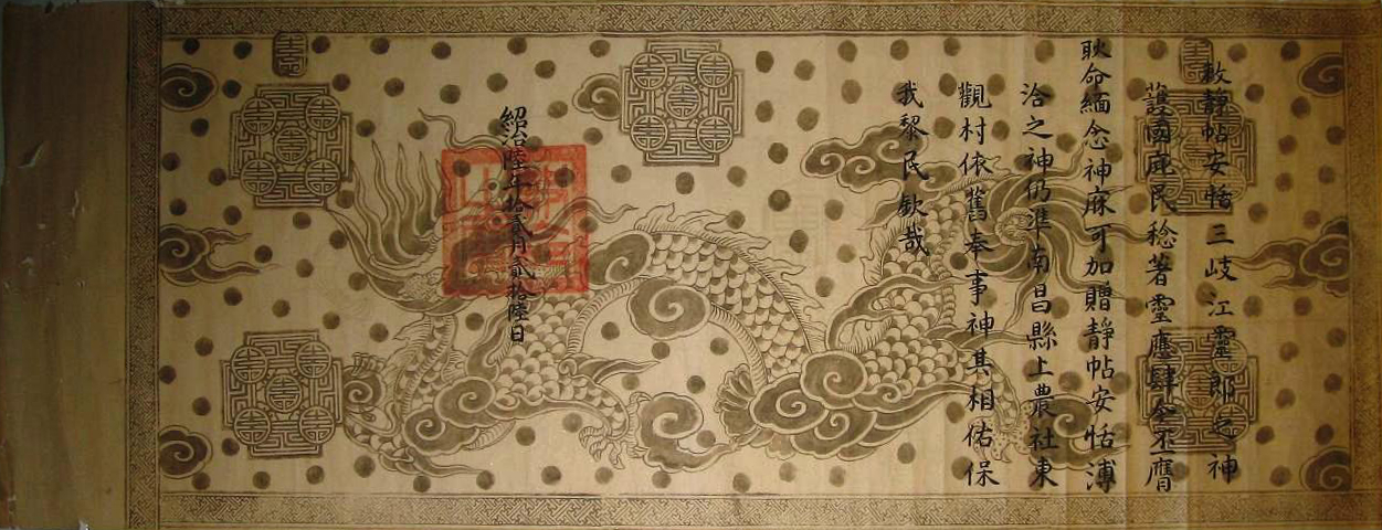 An Imperial edict issued by Emperor Thieu Tri (died 1847) to a temple and his subjects. Dated Thieu Tri 6 Year 12 month 26th day. An imperial seal marked "Order and Obey "